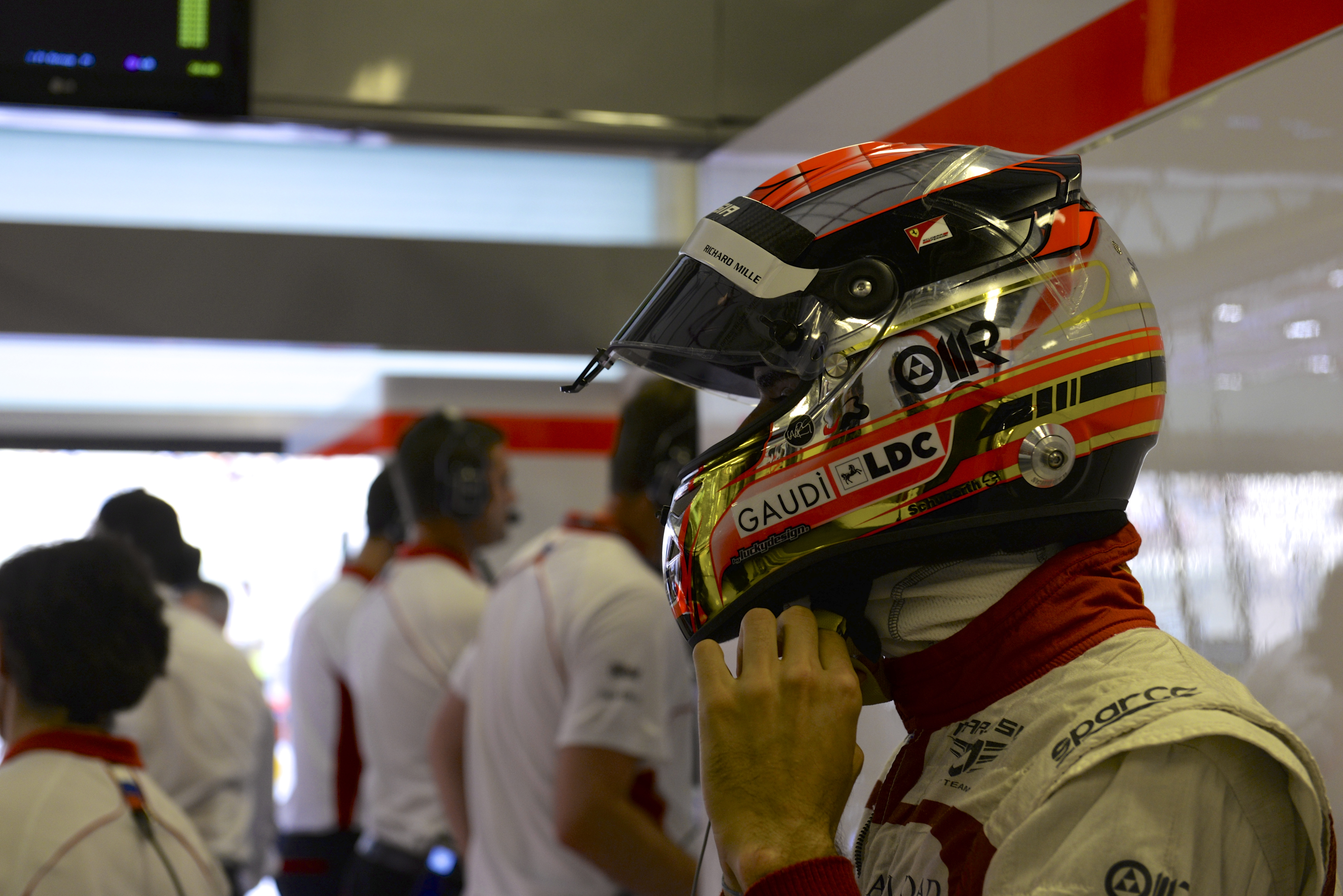 Jules Bianchi's helmet, 2013 Abu Dhabi GP